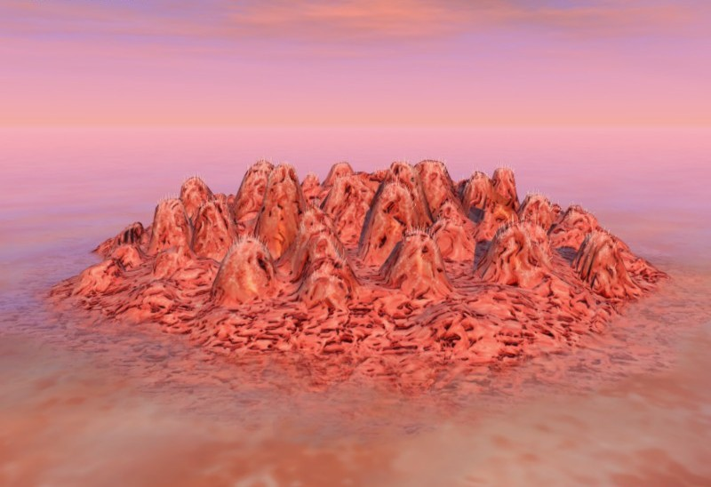 A mimoid during the red day.